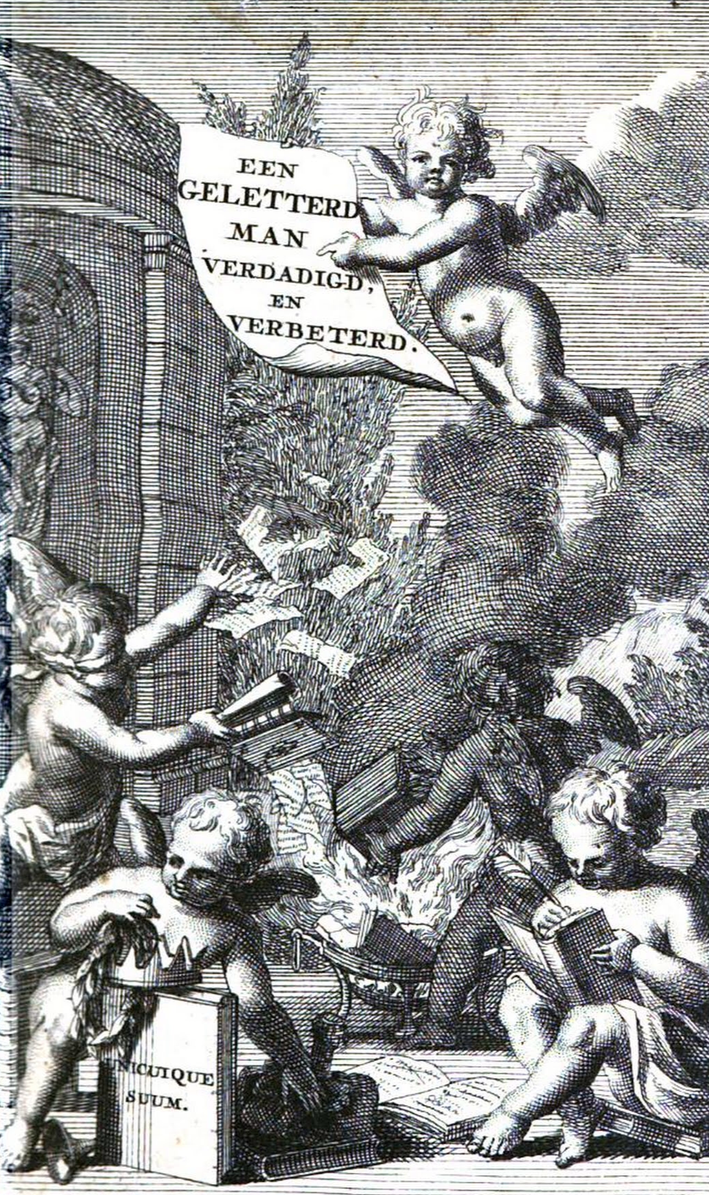 Title Frontispiece Een Geletterd Man Lambert Bildoo 1722